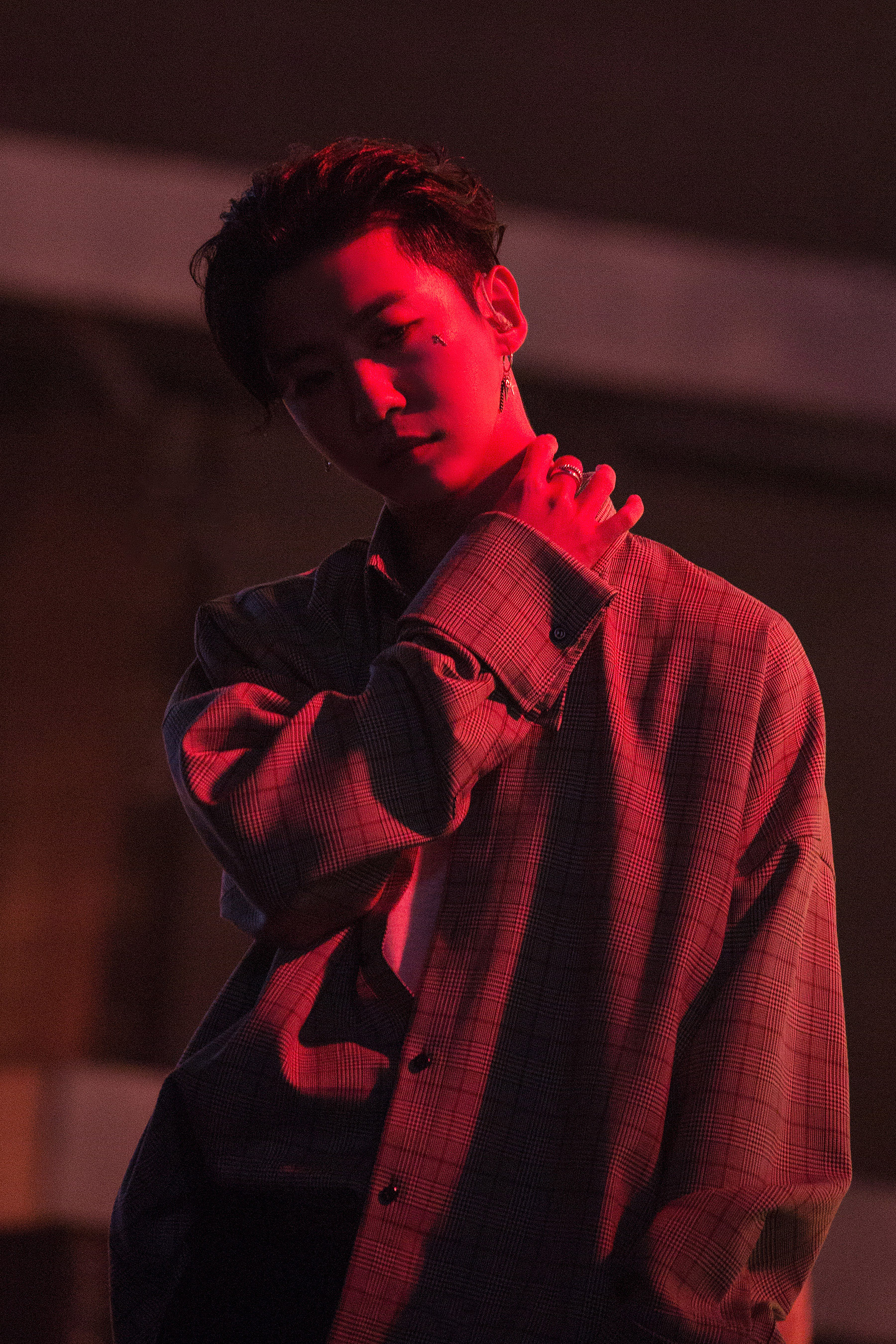 B.A.P performing on SBS's Inkigayo in Daejeon on September 24, 2017.